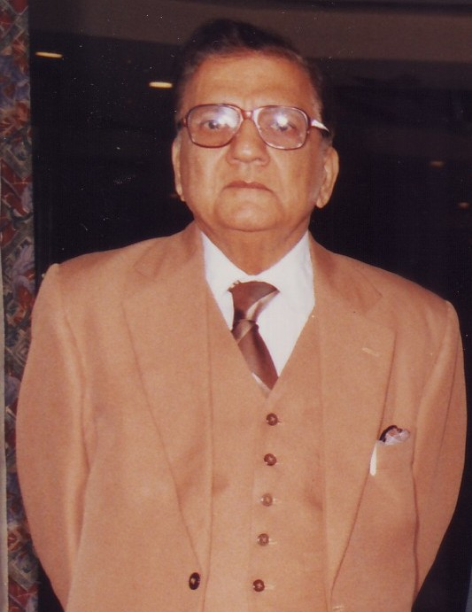 Justice Mushtak Ali Kazi at a social occasion after his retirement in October 1990